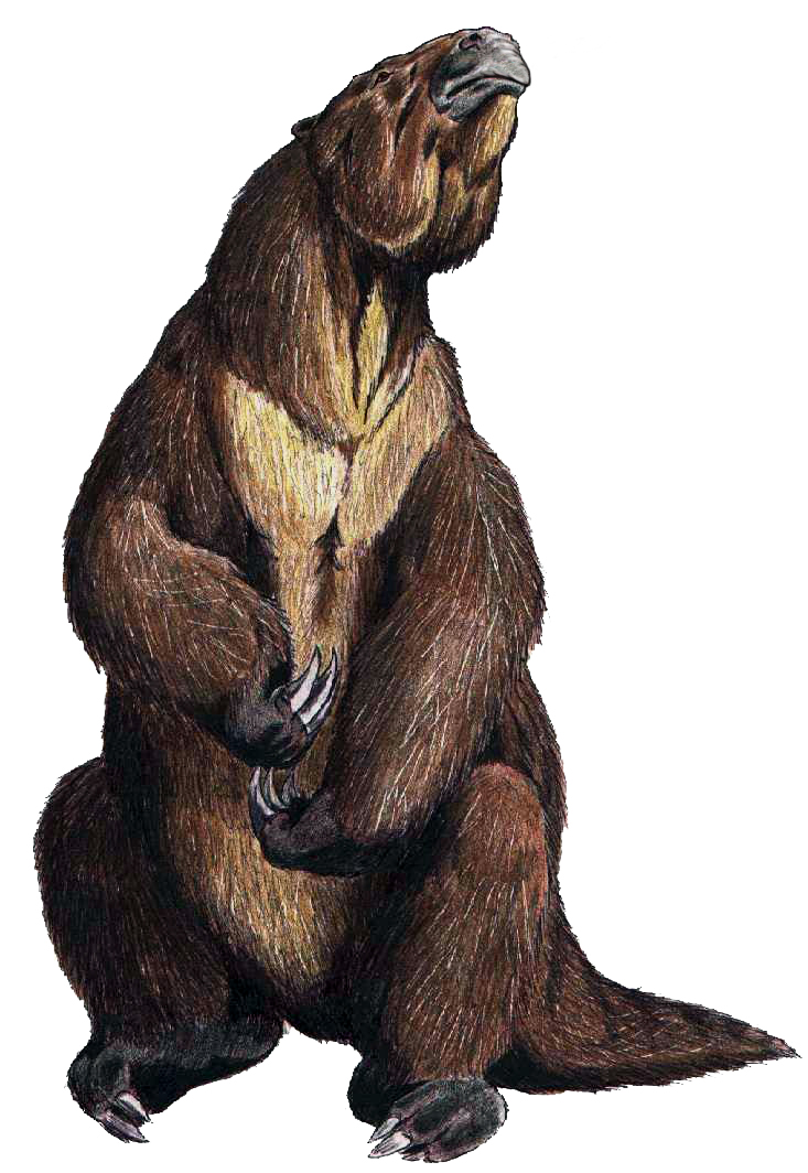 Megatherium, an extinct genus of elephant-sized ground sloths endemic to Central and South America (living from the late Pliocene through the end of the Pleistocene, one of the largest land mammals known, weighing up to 4 tonnes and up to 6 m)